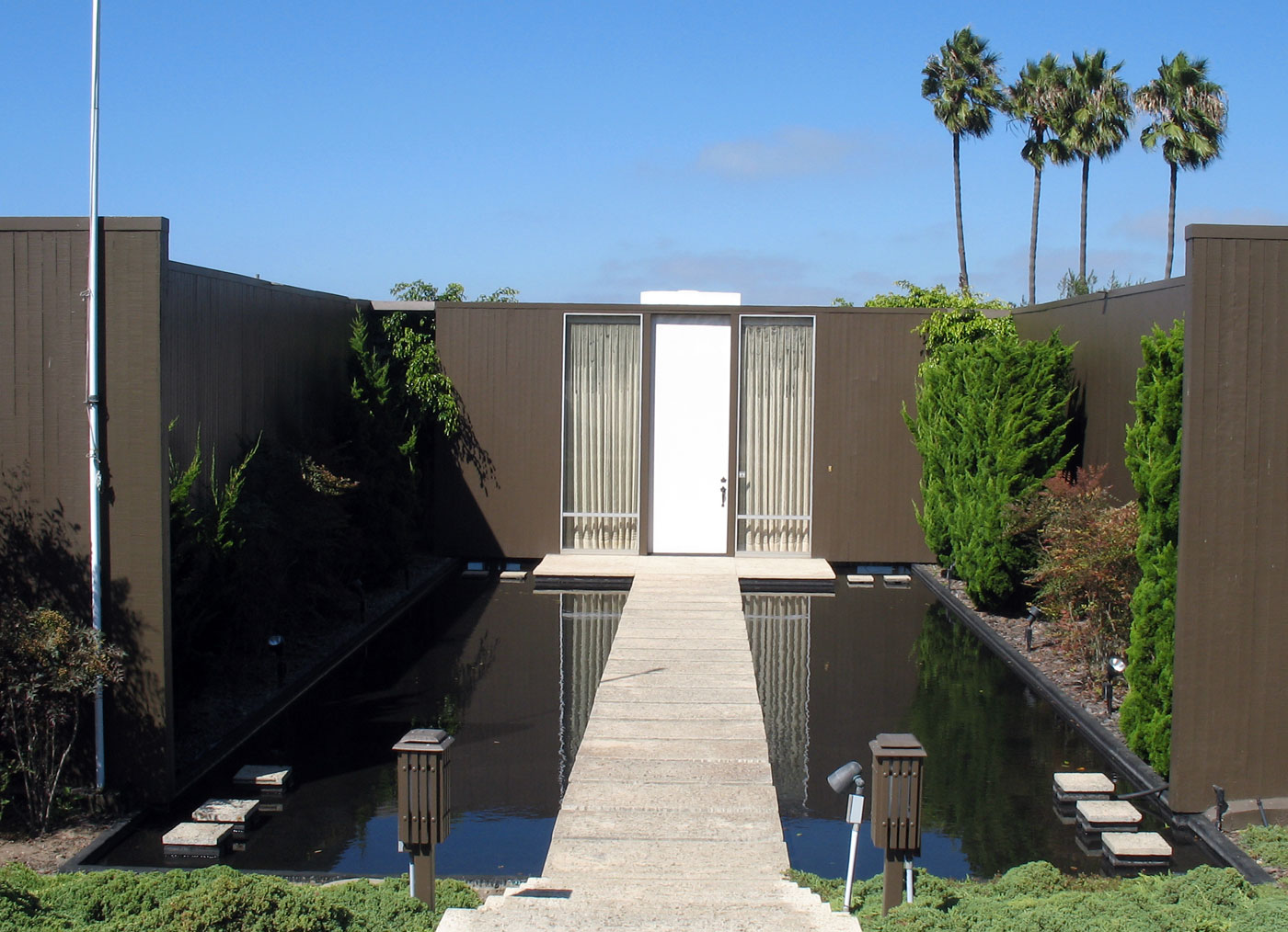 Case Study House No. 23 — on Rue de Anne in La Jolla, San Diego, California. Designed by Killingsworth, Brady & Smith, 1960. One of the three "Triad" of Case Study Houses on the same block, (this one presented the best face for photographing).